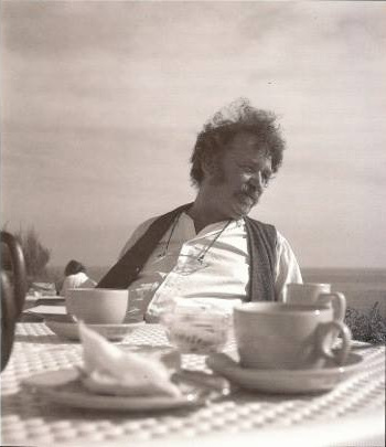 Photo of Bryan Ingham in public domain, taken by Eiluned Morgan circa 1994